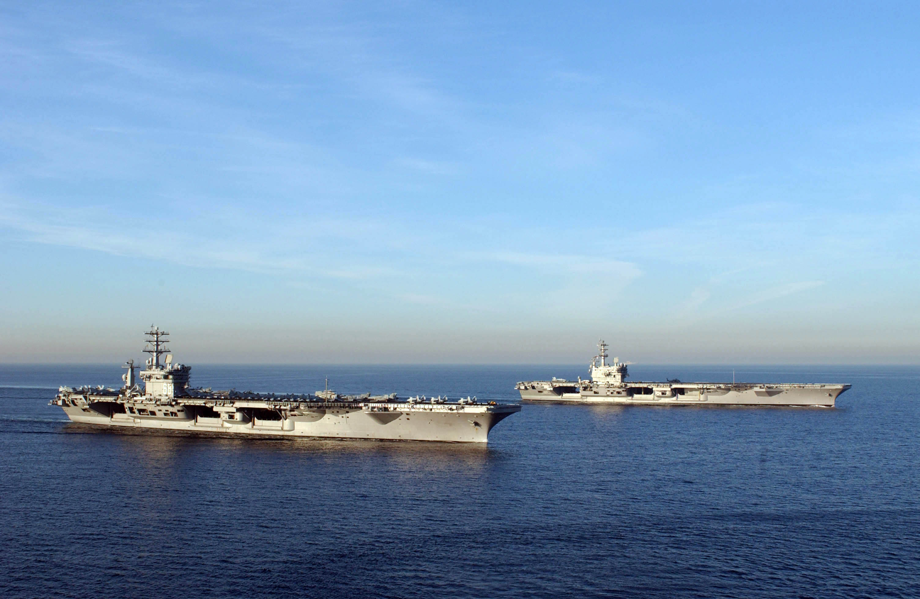 Pacific Ocean – USS Nimitz (CVN 68), and USS Ronald Reagan (CVN 76) navigate alongside each other during routine training exercises off the southern California coast.